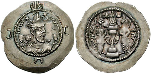 Coin of Khosrau I, Sasanian king